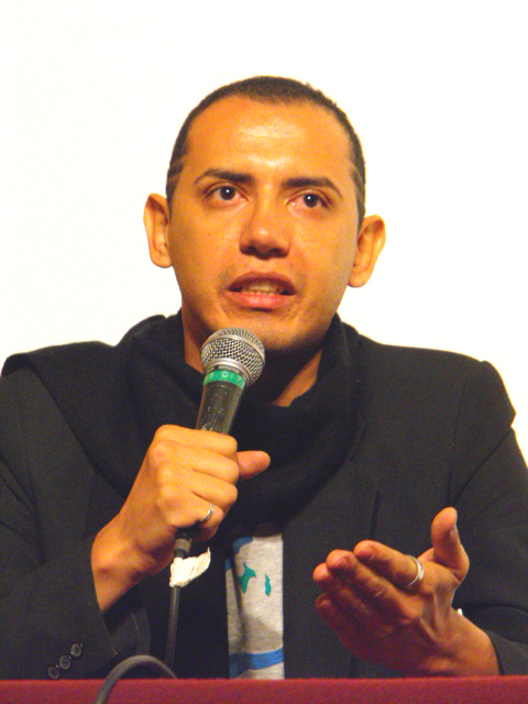 Edson Hurtado en La Paz